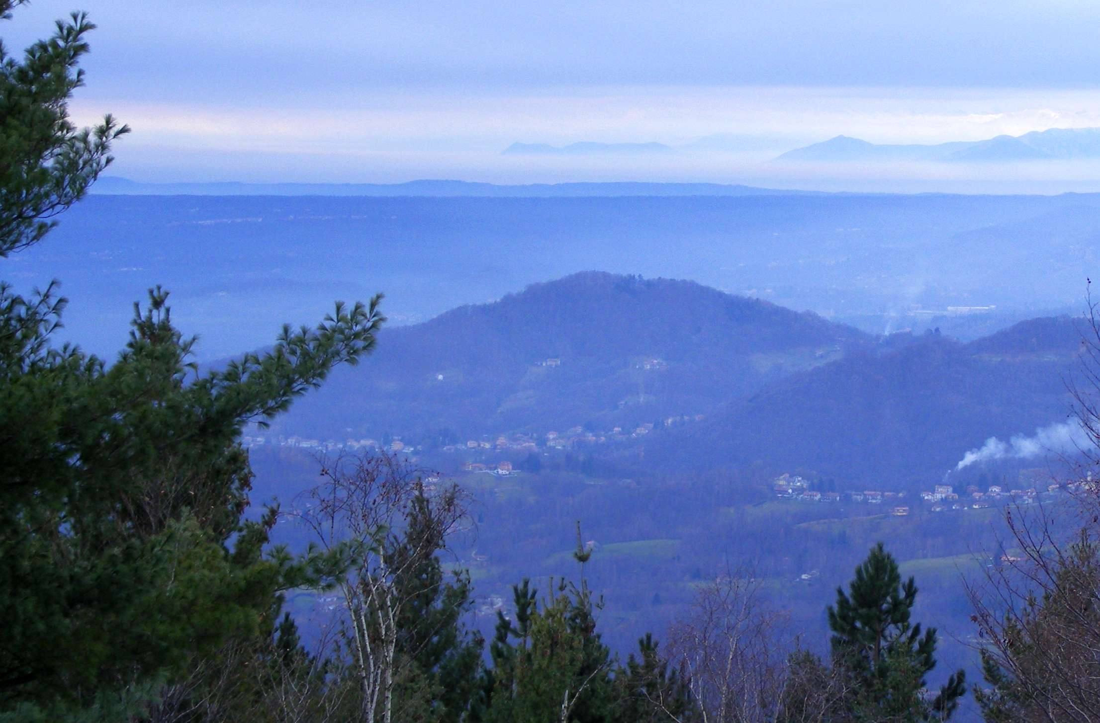 Bric Burcina (BI, Italy) seen from Monte Casto; in the background Serra d'Ivrea, Musinè and Piossasco's mountains (TO)